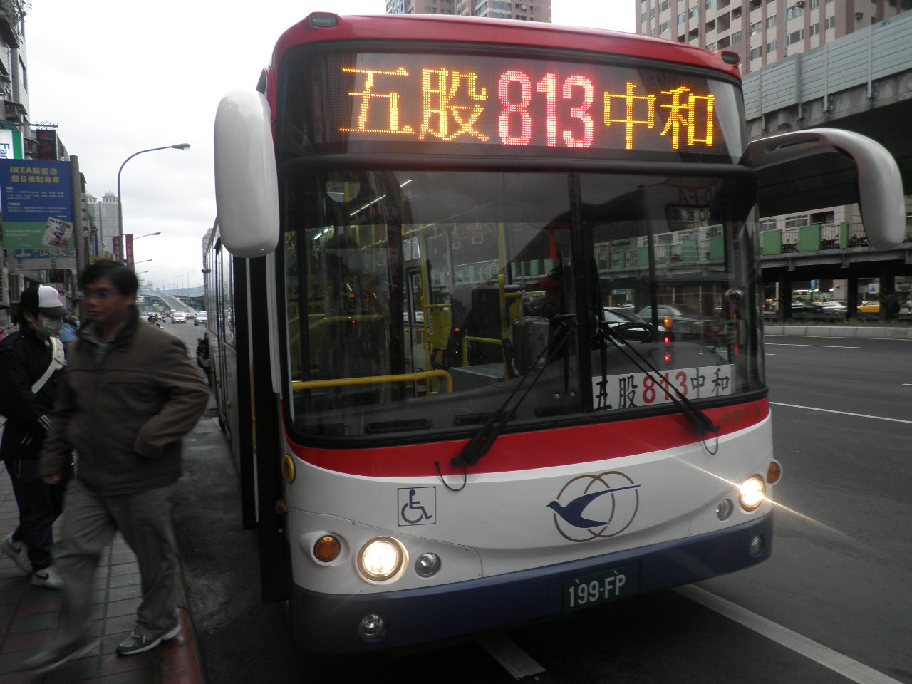 Chih-Nan Bus low floor bus 199-FP.